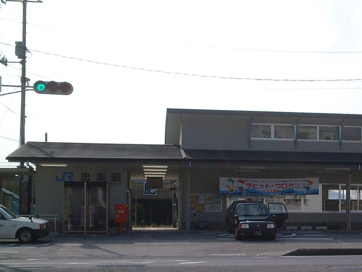 Tadanoumi Station of JR Kure line at Takehara city, Hiroshima, Japan.